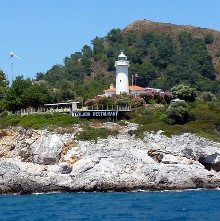 The Gulf of Fethiye. Kizilada Restaurant and Kızılada Feneri